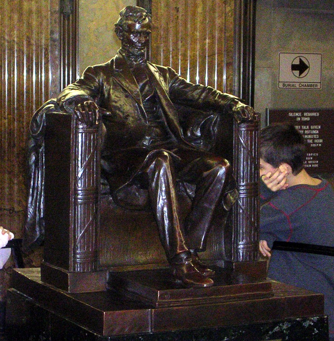 A model of the sculpture at the Lincoln Memorial at the entrance to Lincoln's Tomb.